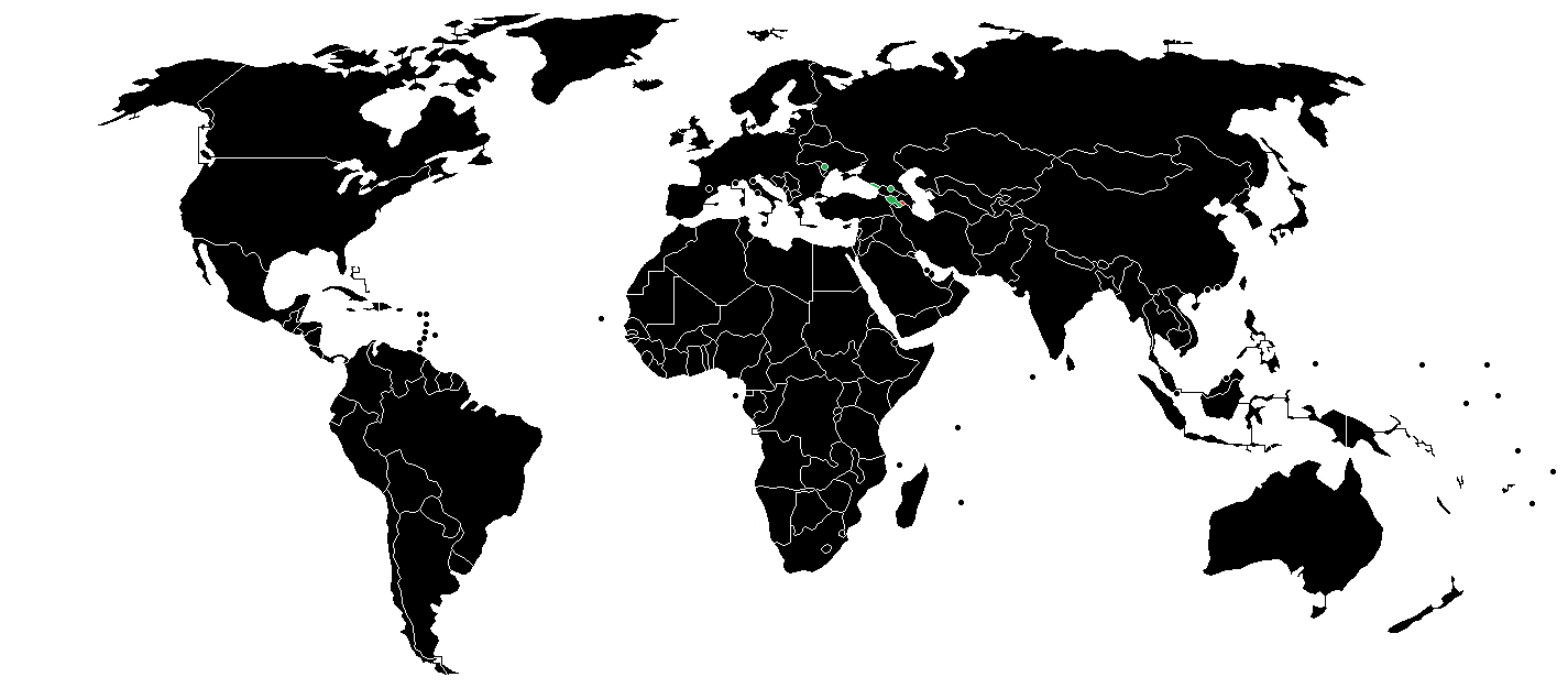 Artsakh Visa free access Admission refused